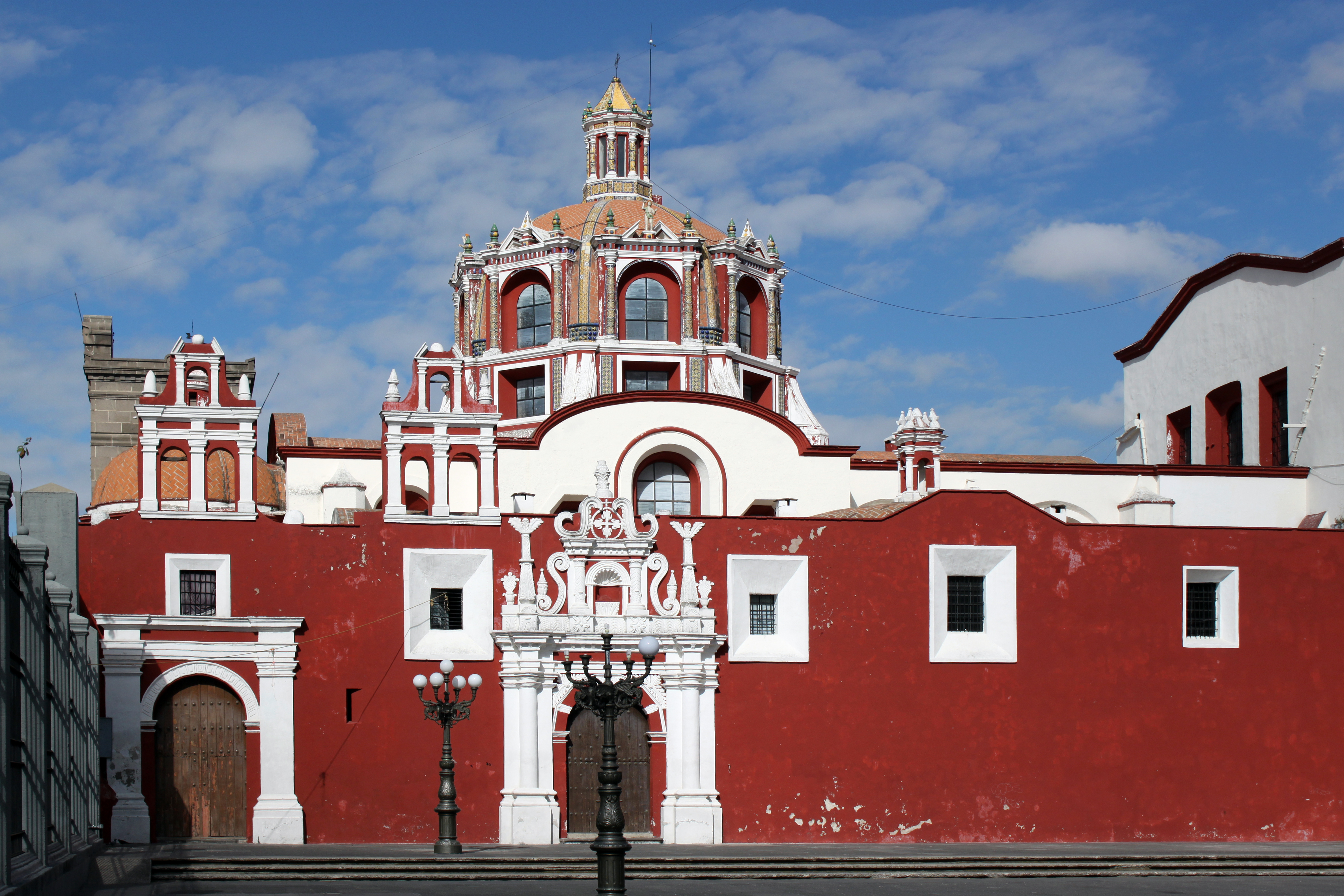 Puebla (Puebla, Mexico): Rosary Chapel